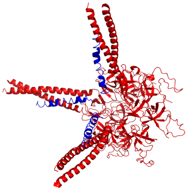 prokaryotic ubiquitin-like proteins - Pup (colored blue) attached proteasomal ATPase Mpa (colored red), PDB structure 3M9D